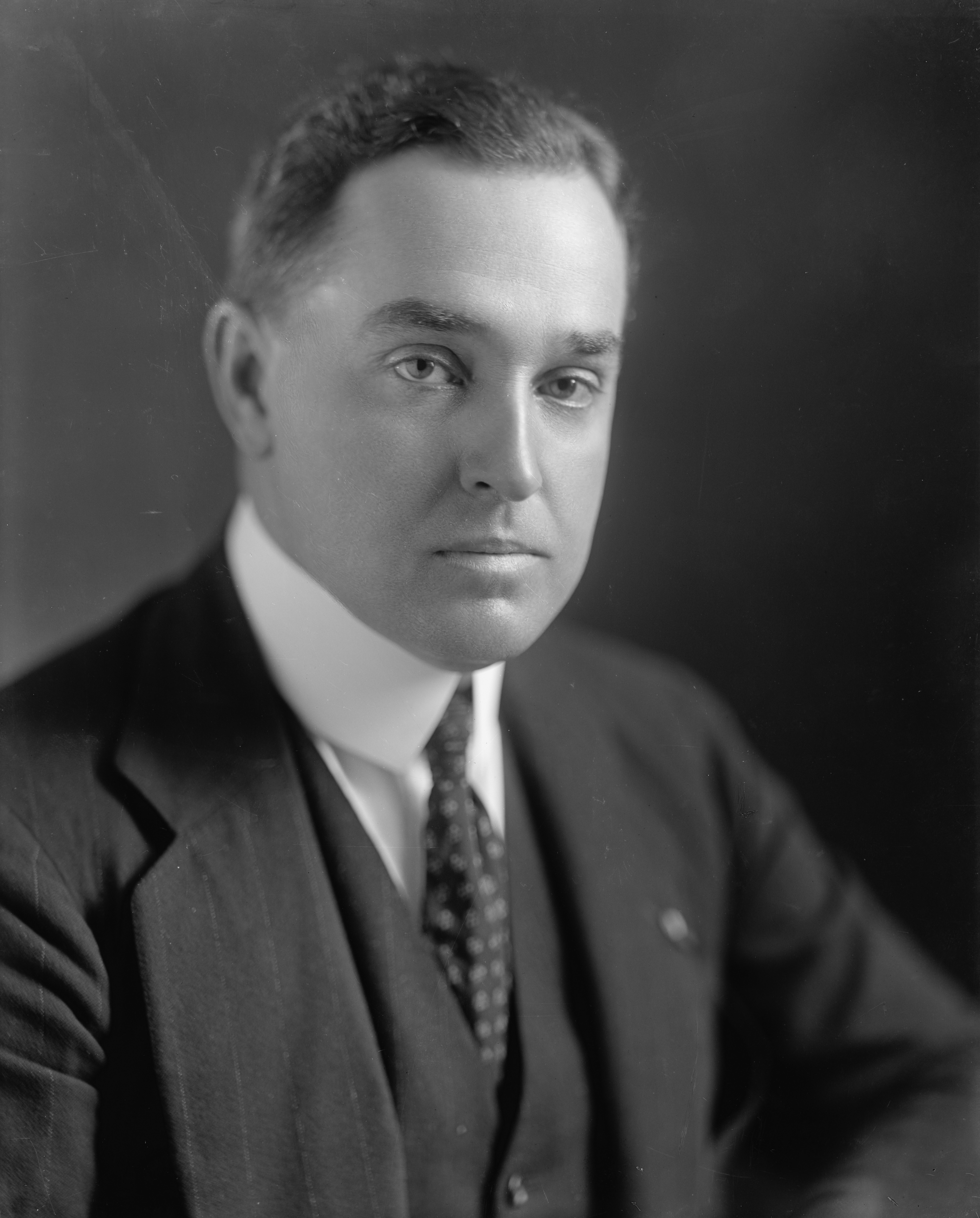 Title: HILL, JOHN P., HONORABLE Abstract/medium: 1 negative : glass ; 8 x 10 in. or smaller